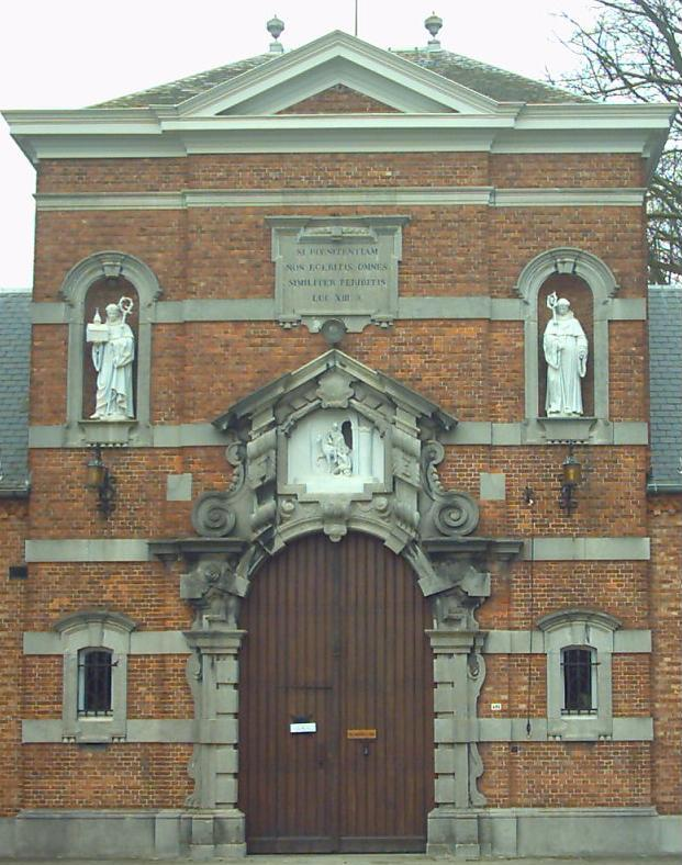 Picture taken by Peter Van Osta (myself) of the entrance of the Trappist Abbey of Westmalle (Malle), Belgium